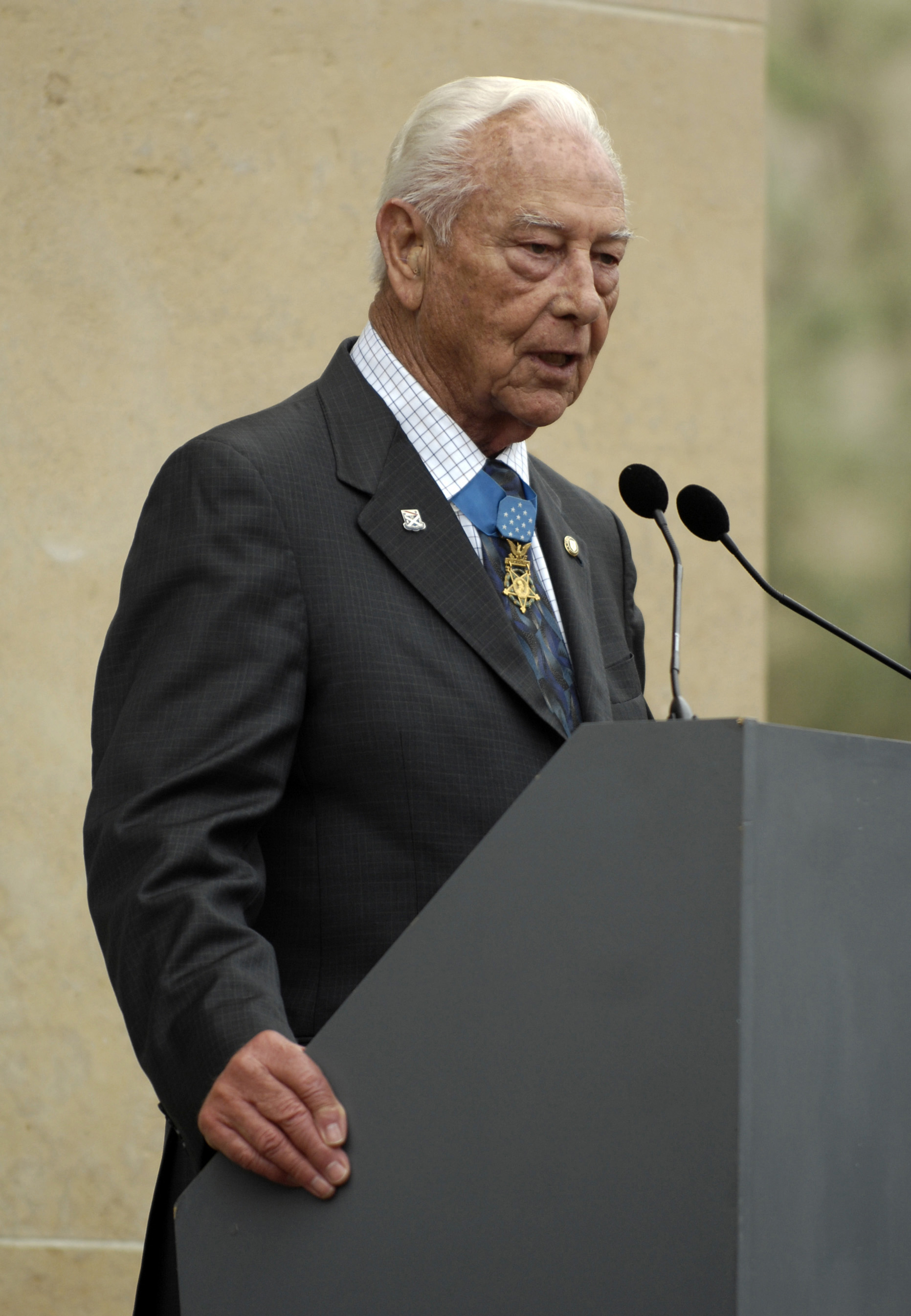 U.S. Medal of Honor recipient and D-Day veteran Walter Ehlers tells about his experience on D-Day at the 63rd Anniversary of D-Day in Normandy, France, June 6, 2007.